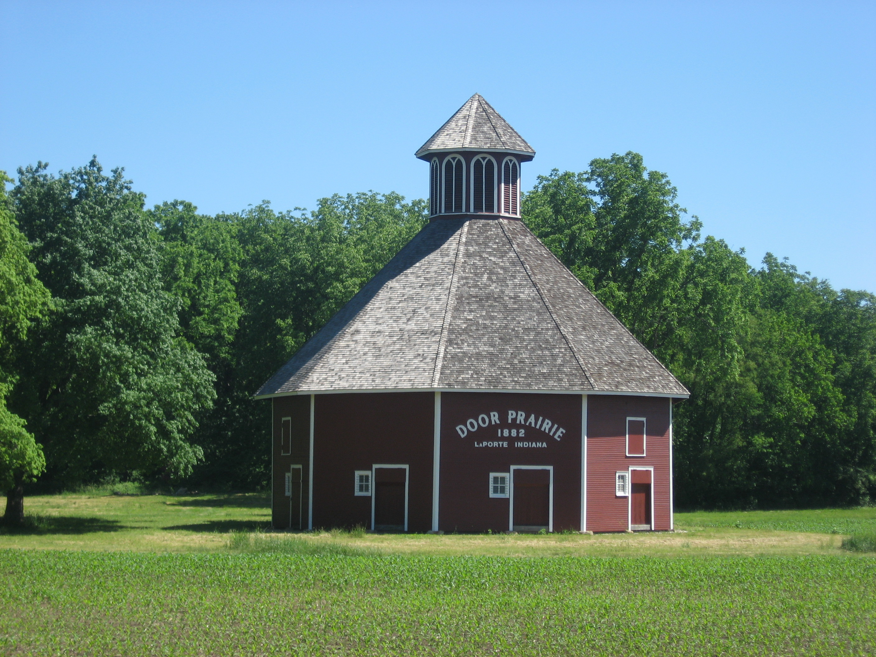 Western side of the Marion Ridgeway Polygonal Barn, located on the eastern side of U.S. Route 35 on the southern fringe of LaPorte, Indiana, United States. Built in 1878, it is listed on the National Register of Historic Places.